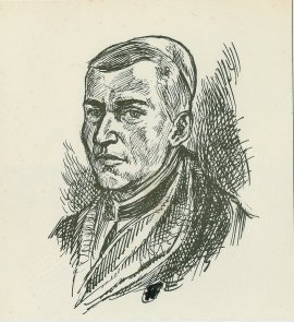 Father Diego de Torres Vargas (1590–1649)